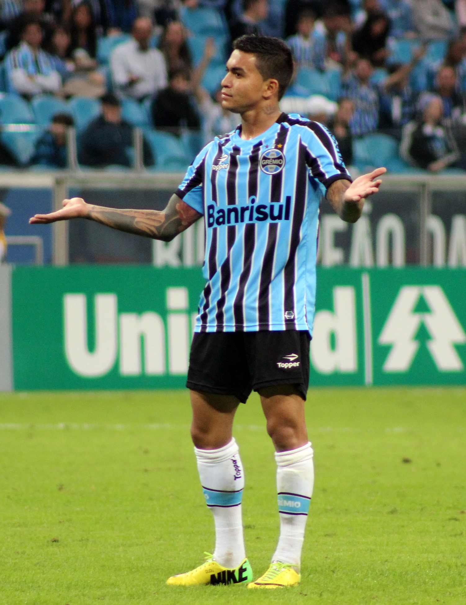 Eduardo Pereira Rodrigues (born 7 January 1992), commonly known as Dudu, is a Brazilian professional footballer who plays as a attacking midfielder and forward.